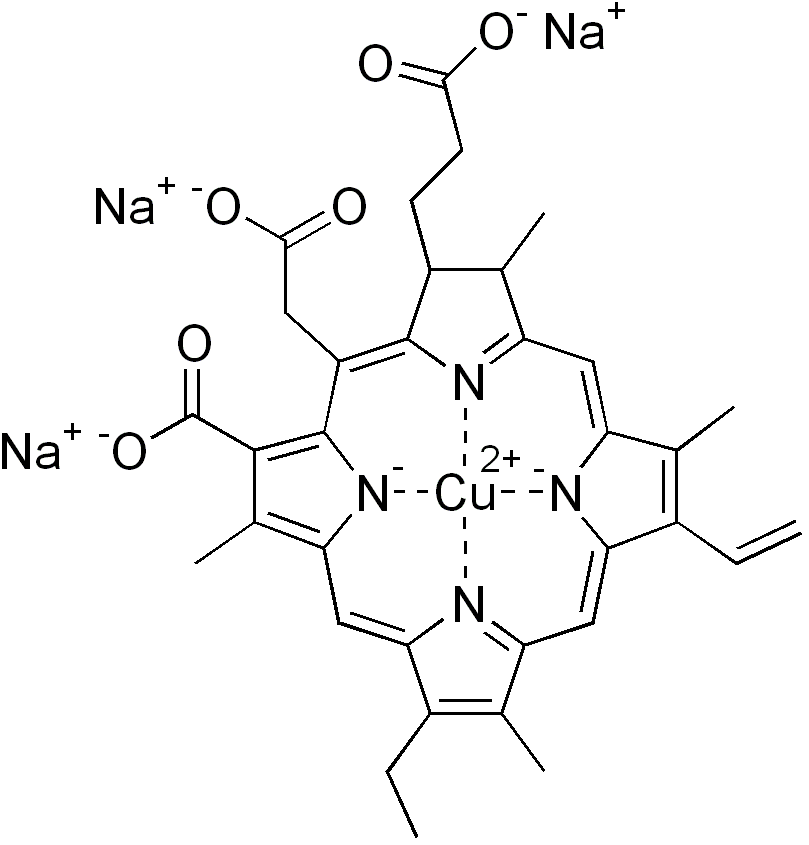 chemical structure of chlorophyllin coppered trisodium salt (E 141, C.I. 75815)